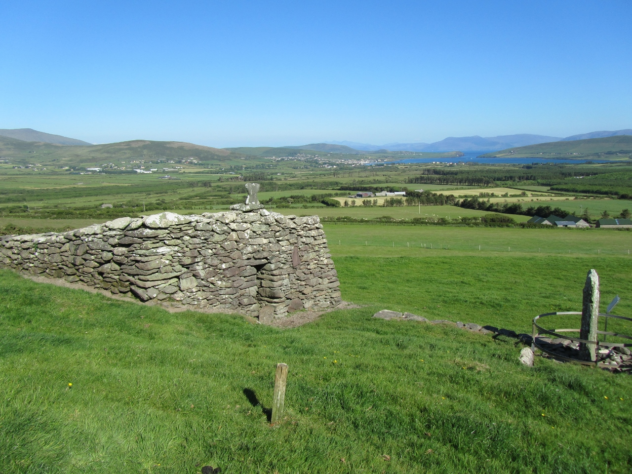 County Kerry, Temple-Managhan. Wikidata has entry Q30247259 with data related to this item.